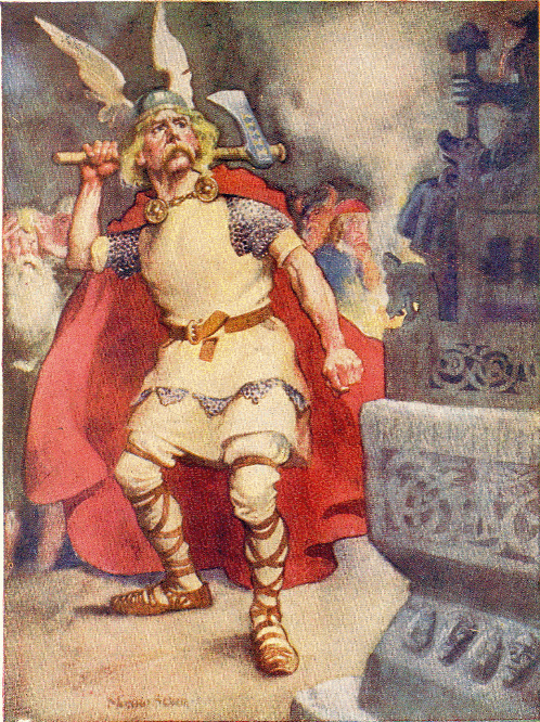 Olaf Tryggvason spread Christianity in Norway and destroyed idols.